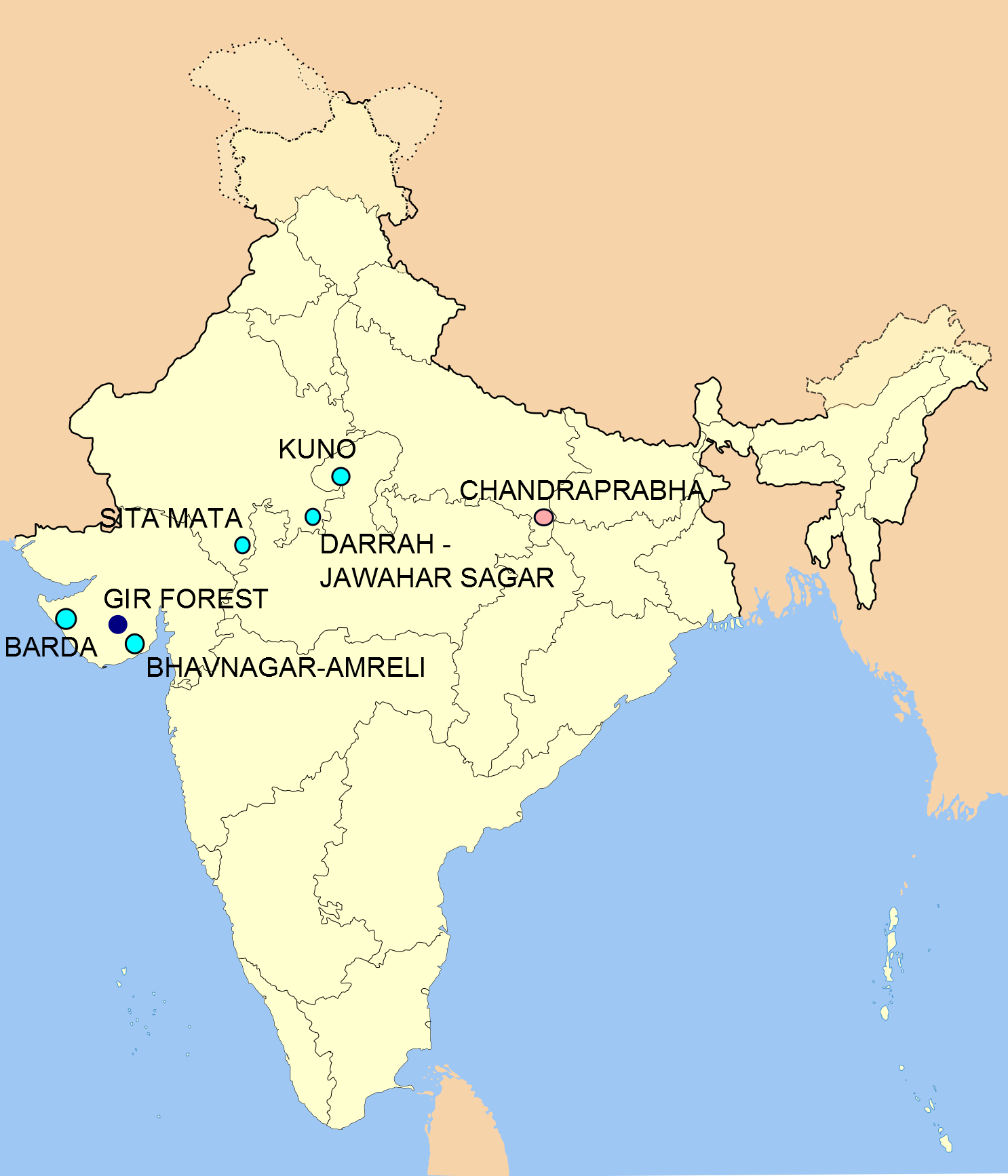 Location of Lion Reintroduction sites in India. LEGEND : Gir Forest NP - existing site (black). Chandraprabha WLS - former site (pink). Barda, Kuno & Bhavnagar-Amreli WLS proposed sites (light blue). Based on